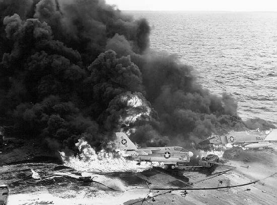 Aircraft burning aboard the U.S. Navy nuclear powered aircraft carrier USS Enterprise (CVAN-65), 14 January 1969. The fire started when a Zuni rocket accidentally exploded under the wing of an F-4J Phantom II off Hawaii (USA). The following explosions blew holes in the flight deck and killed 28 people, wounding 343, 15 aircraft were destroyed. Among the latter were the depicted LTV A-7B Corsair II from attack squadron VA-146 Blue Diamonds (left) and an F-4J from fighter squadron VF-96 Fighting Falcons (right).